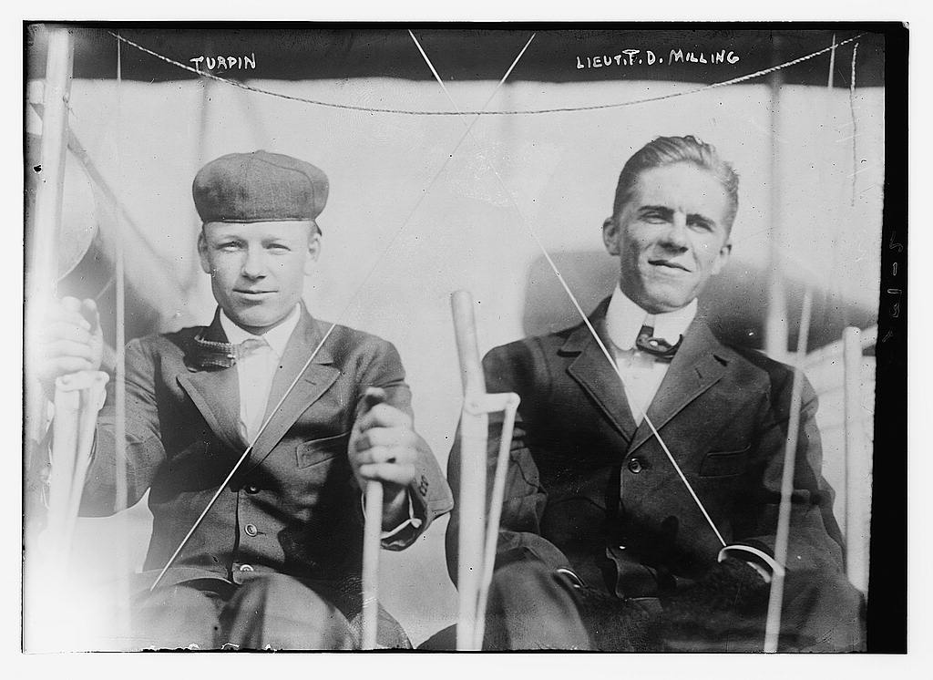 Lt. Thomas DeWitt Milling and J. Clifford Turpin in 1912 1 negative : glass ; 5 x 7 in. or smaller. Notes: Title from unverified data provided by the Bain News Service on the negatives or caption cards. Format: Glass negatives.